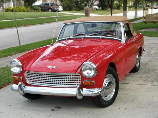 1969 Austin-Healey Sprite Mk IV